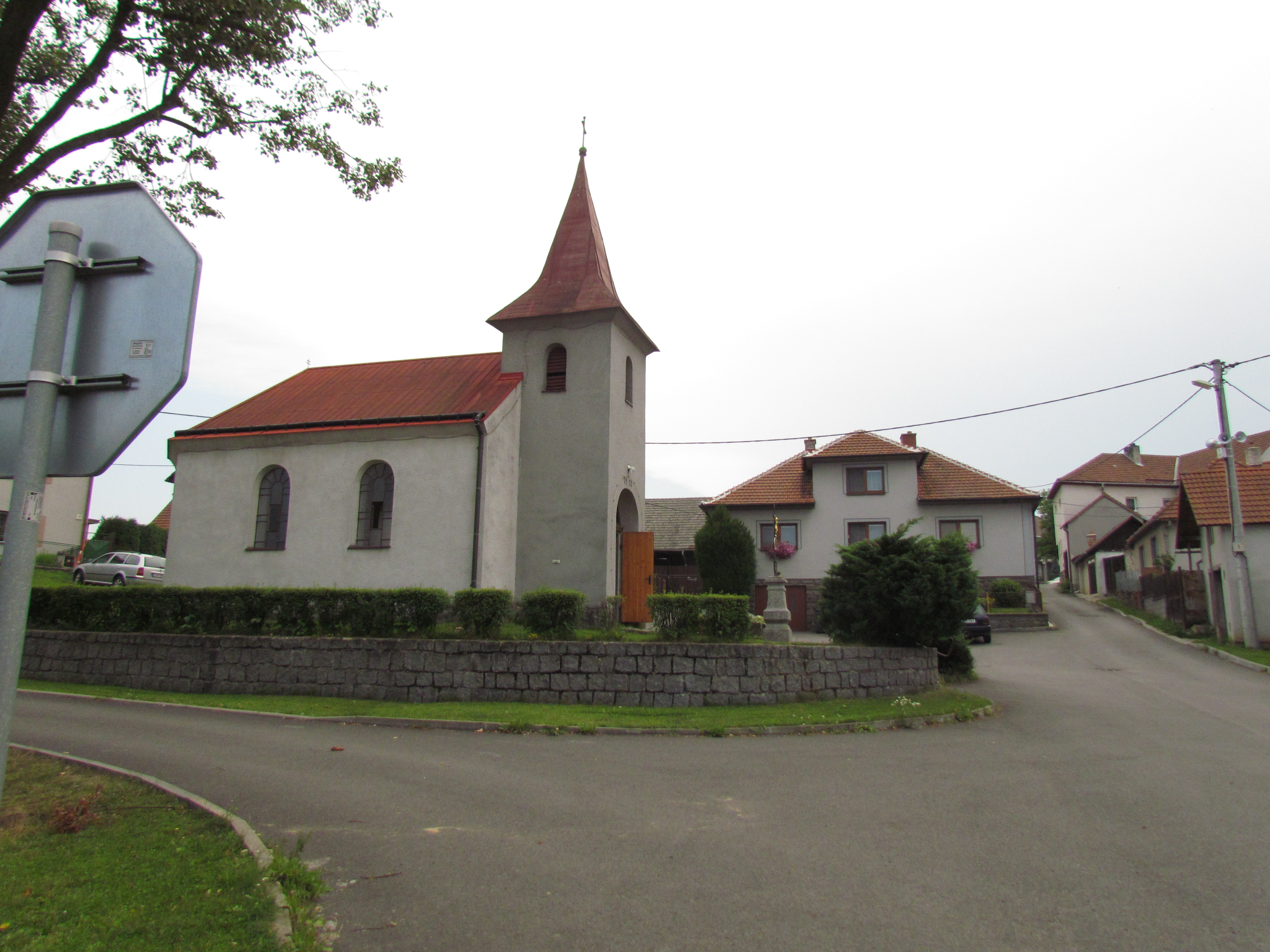 Center with chapel of Immaculate Conception in Vlčatín, Třebíč District.